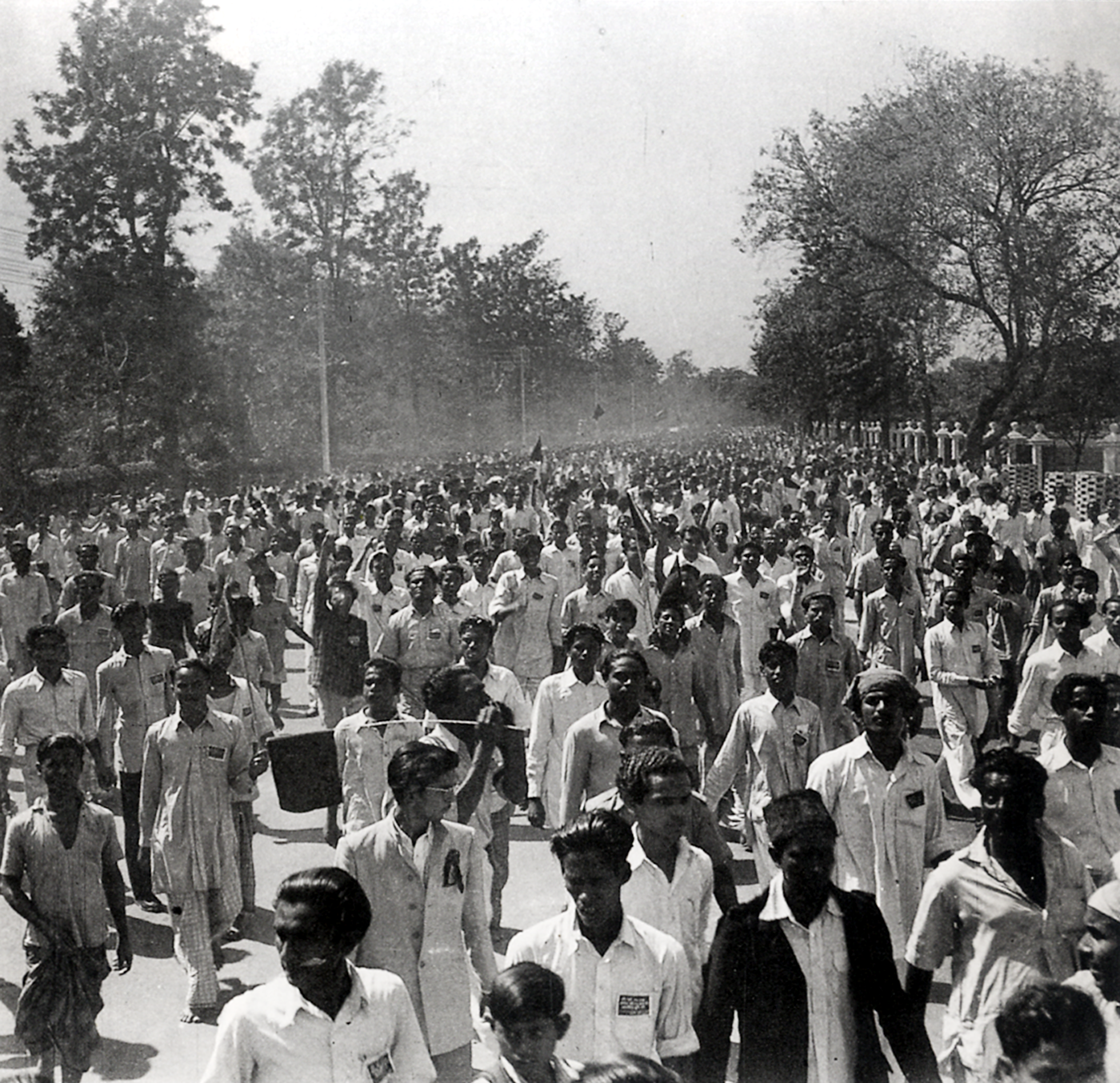 22nd February morning, 1952: Huge condolence-rally after gaybana janaja in front of Medical hostel.